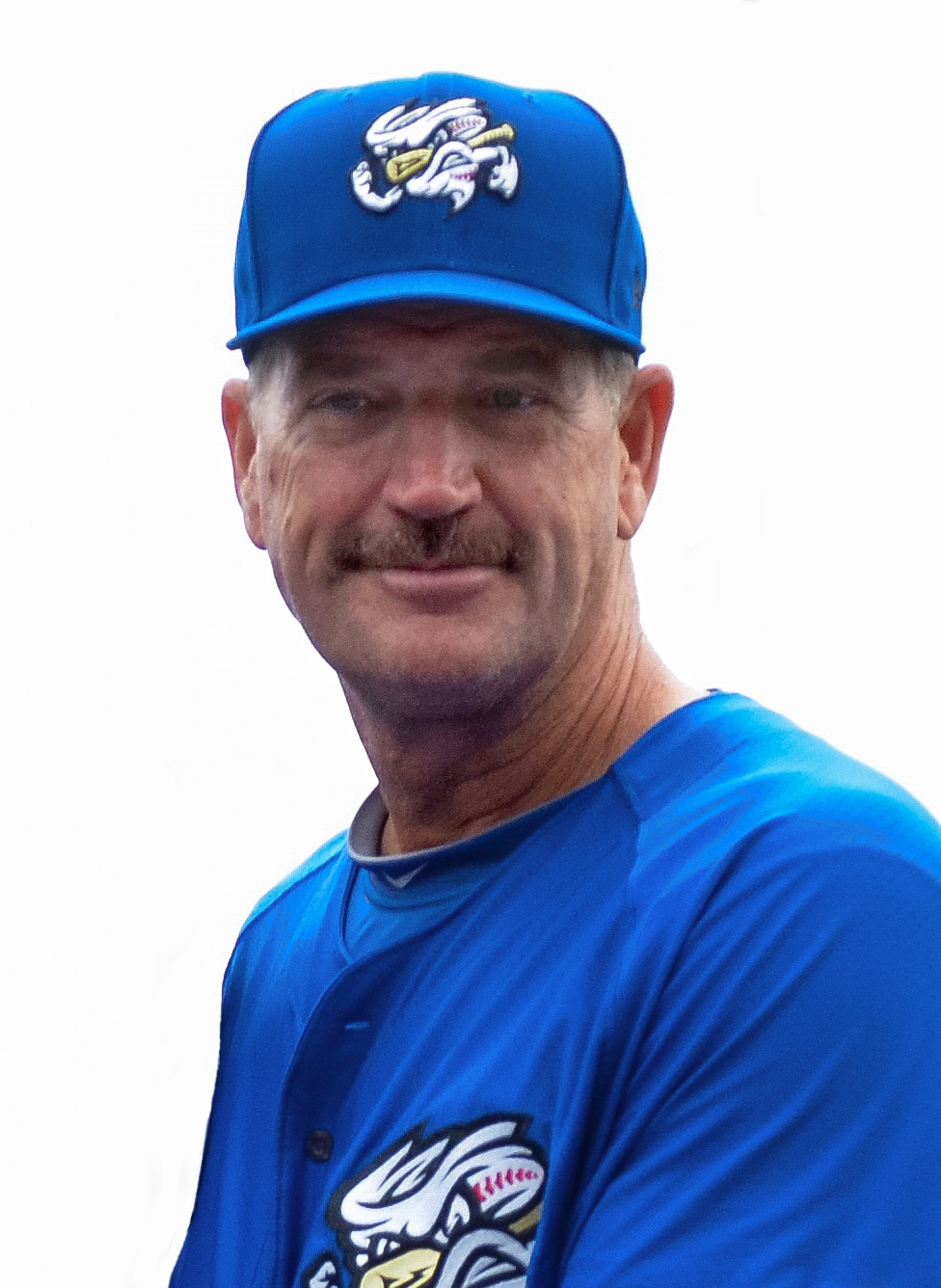 Minda Haas Kuhlmann | 2015 USAGE INSTRUCTIONS: You are welcome to share or publish to your own site or social media account, but you MUST credit me, Minda Haas, or by my Twitter handle (@minda33) or Instagram (minda.haas).